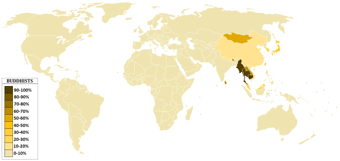 Map of the distribution of Buddhists in the world - color difficulties? click here[1].